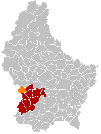 Own edit of Kanton CapellenLocatie.png